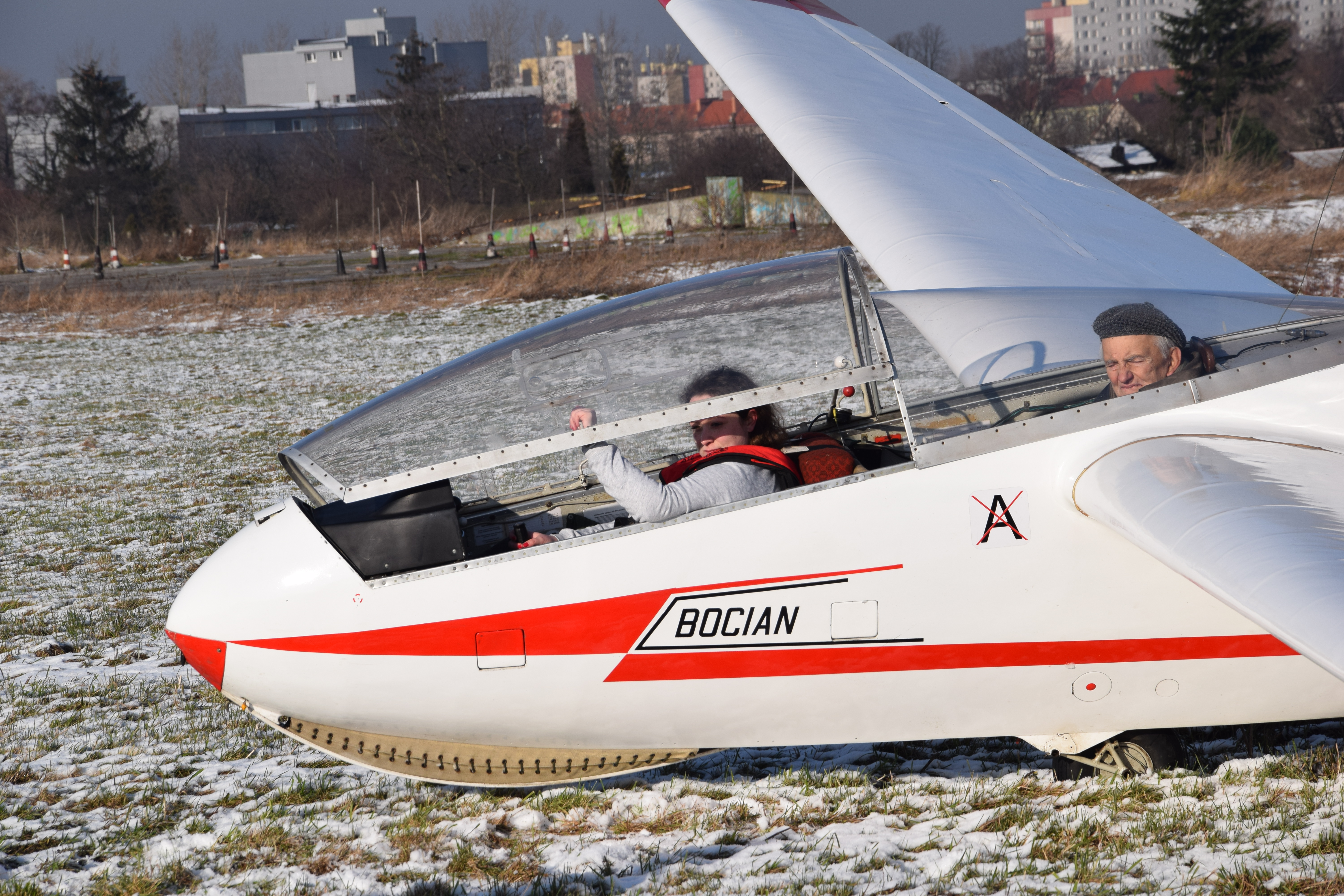 SZD-9 Bocian bis 1E